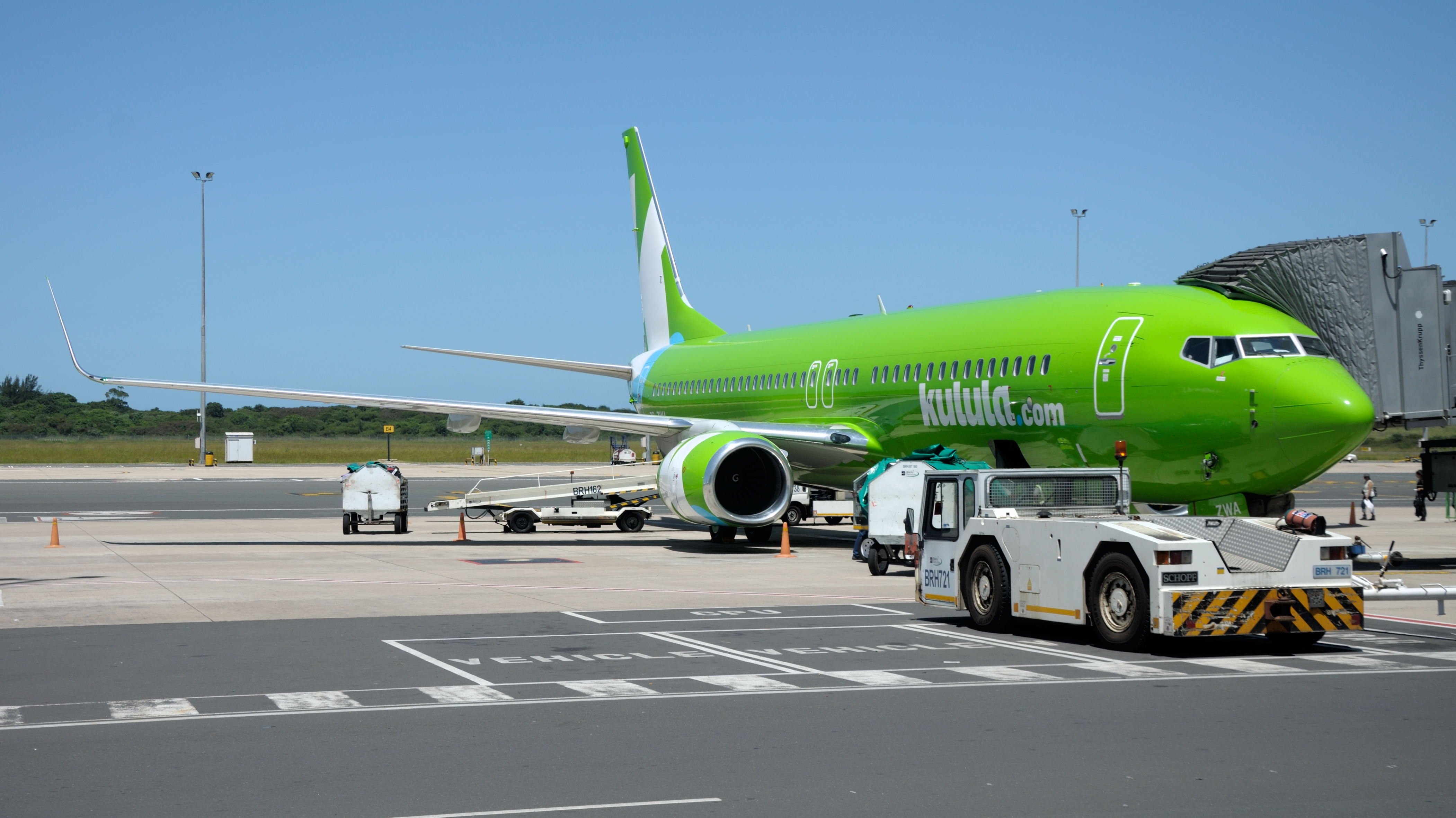 South Africa, spotting at King Shaka International Airport in Durban